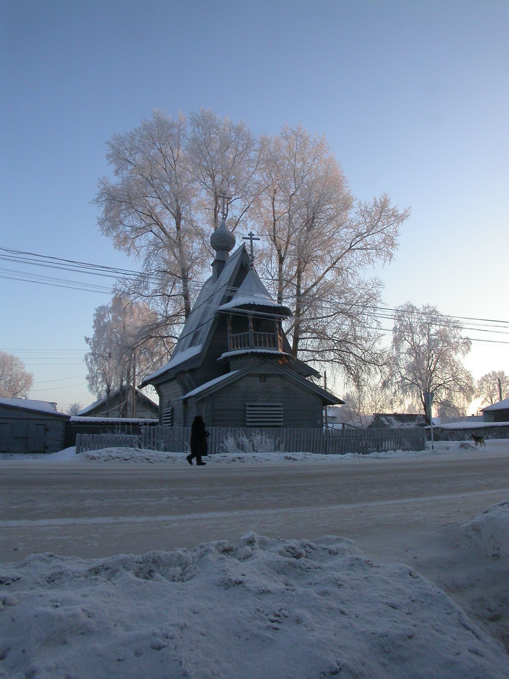 Chapel of the Protection of the Theotokos and St Alexander Nevsky, Konyovo, Plesetsk Rayon, Arkhangelsk Oblast, Russia.